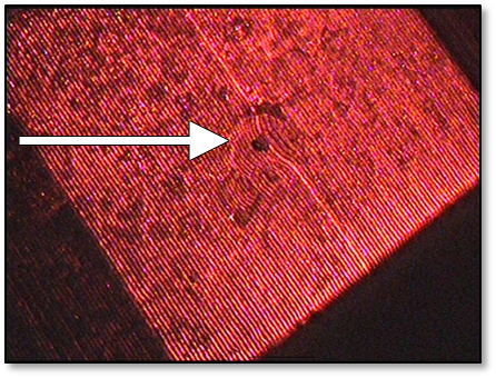 A laser profilometry image of a corrosion pit discovered during robotic NDT operations.